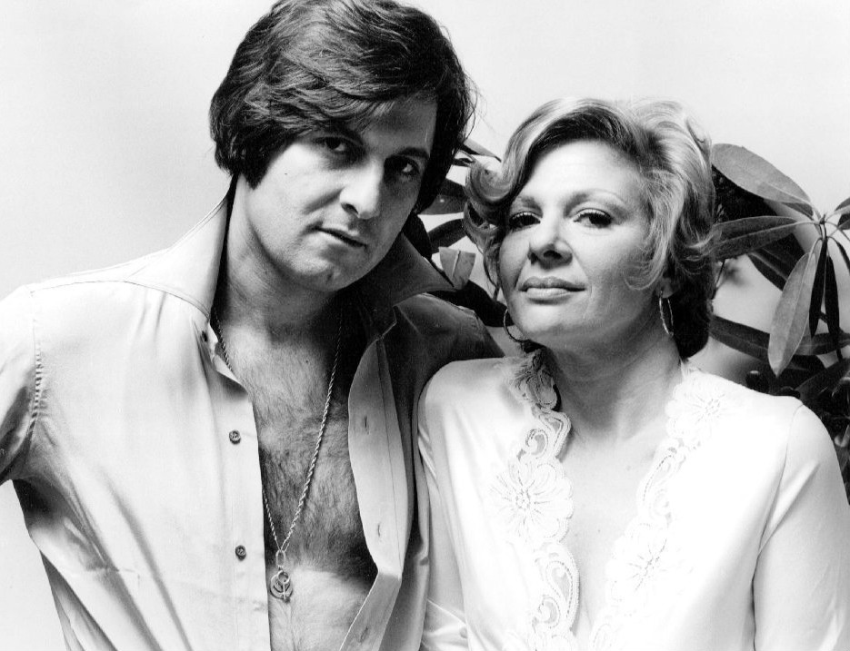 Photo of Joseph Bologna and Renee Taylor (husband and wife in real life) from a television special they wrote and performed in from 1974.